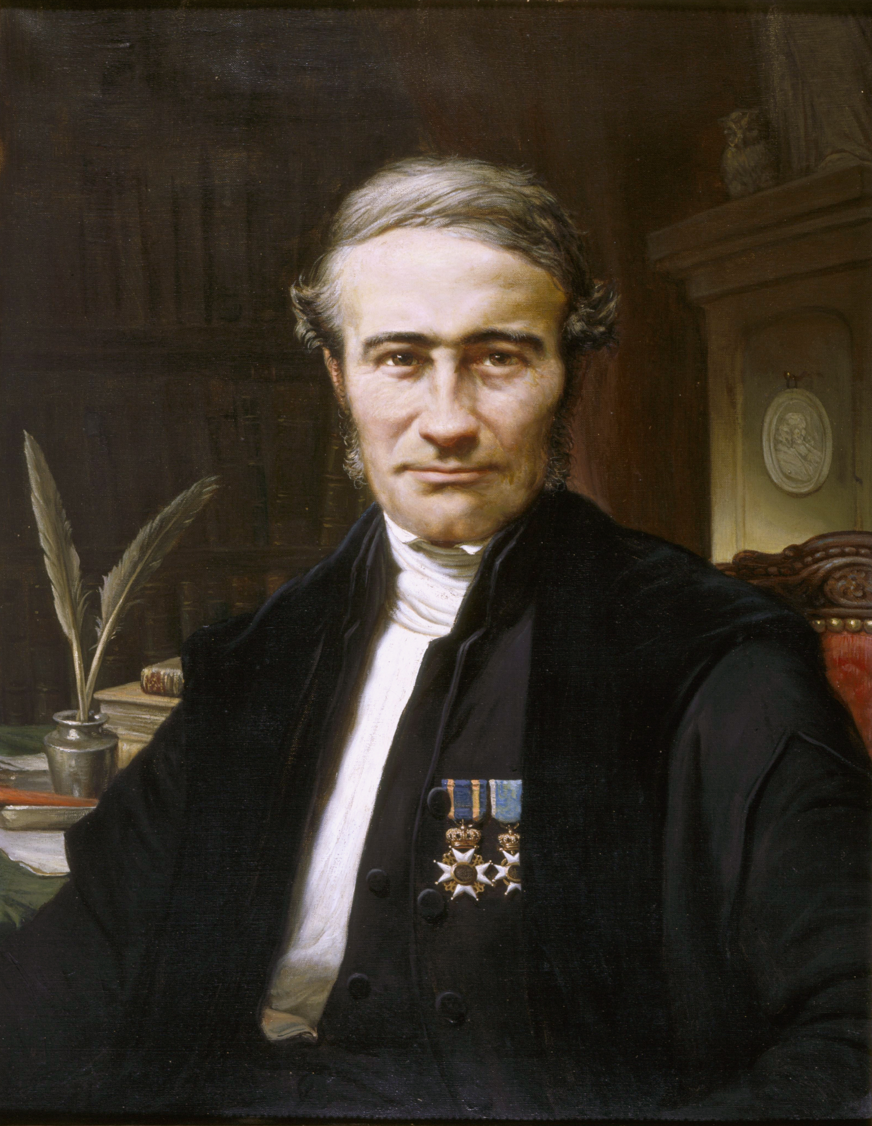 Cornelis Anne den Tex (1795-1854) oil on canvas 75.5 x 58.5 cm 1840-1882